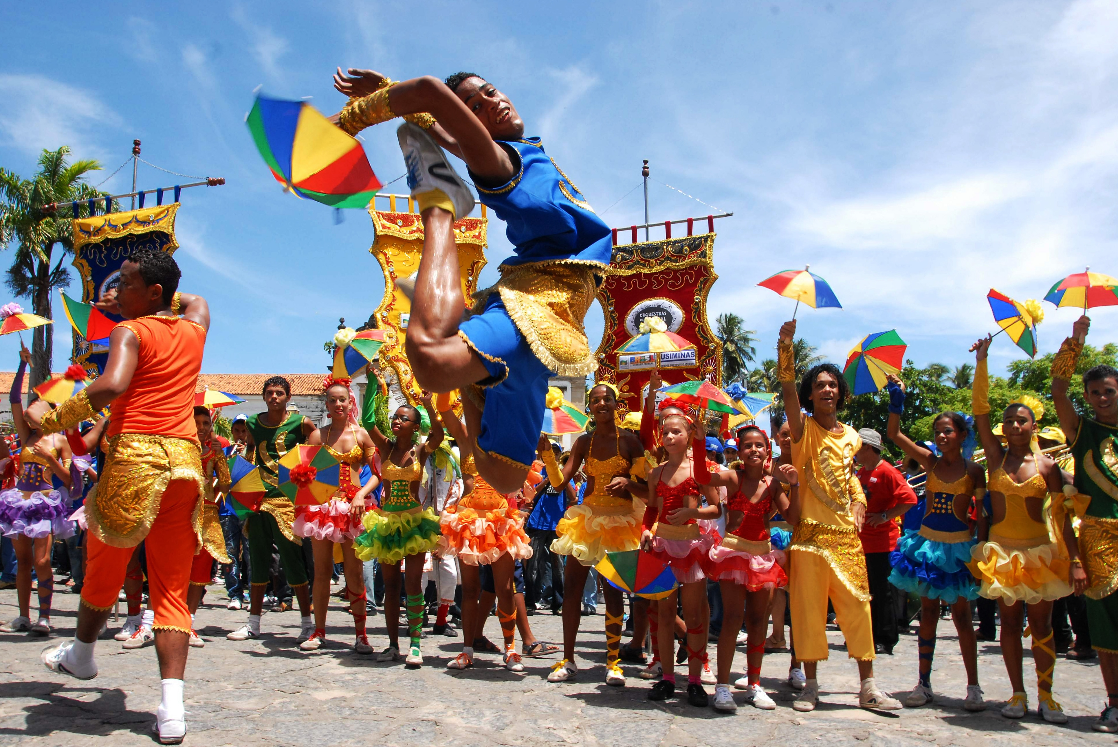 Frevo dancers - Olinda, Pernambuco, Brazil